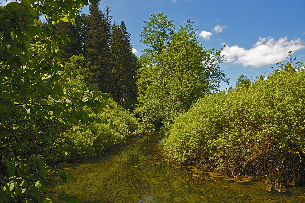 Immediately after its karstic source, Ribnica forms a little wetland.